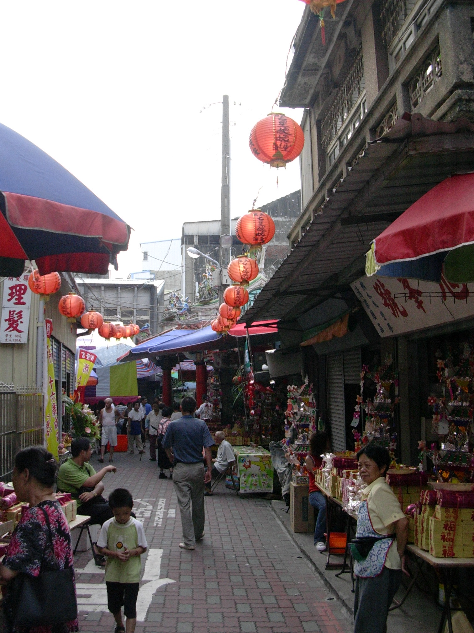 Ciniangjing Street (七娘境街), Tainan City, Taiwan